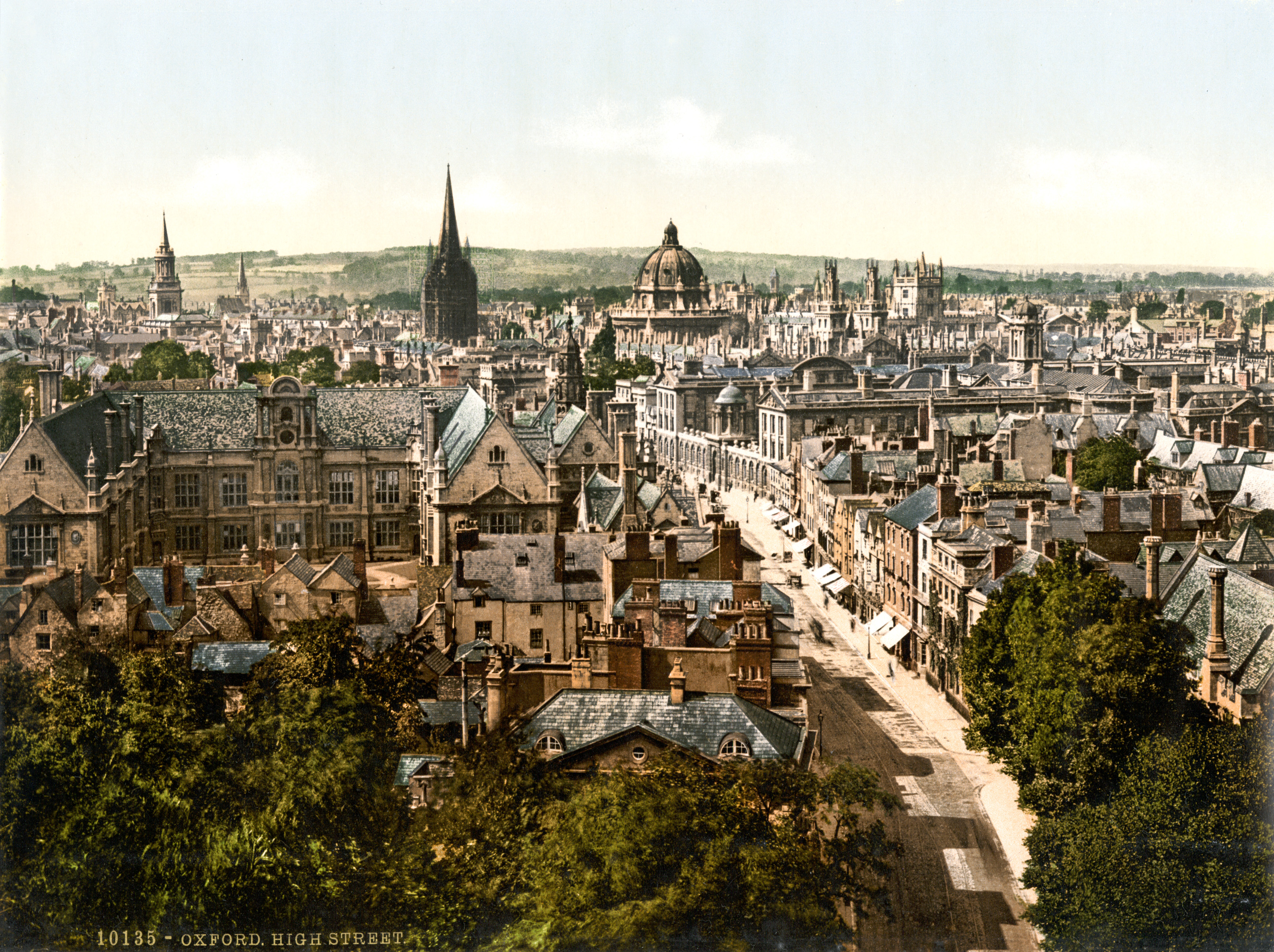 General view and High Street, Oxford, England. 1 photomechanical print : photochrom, color.